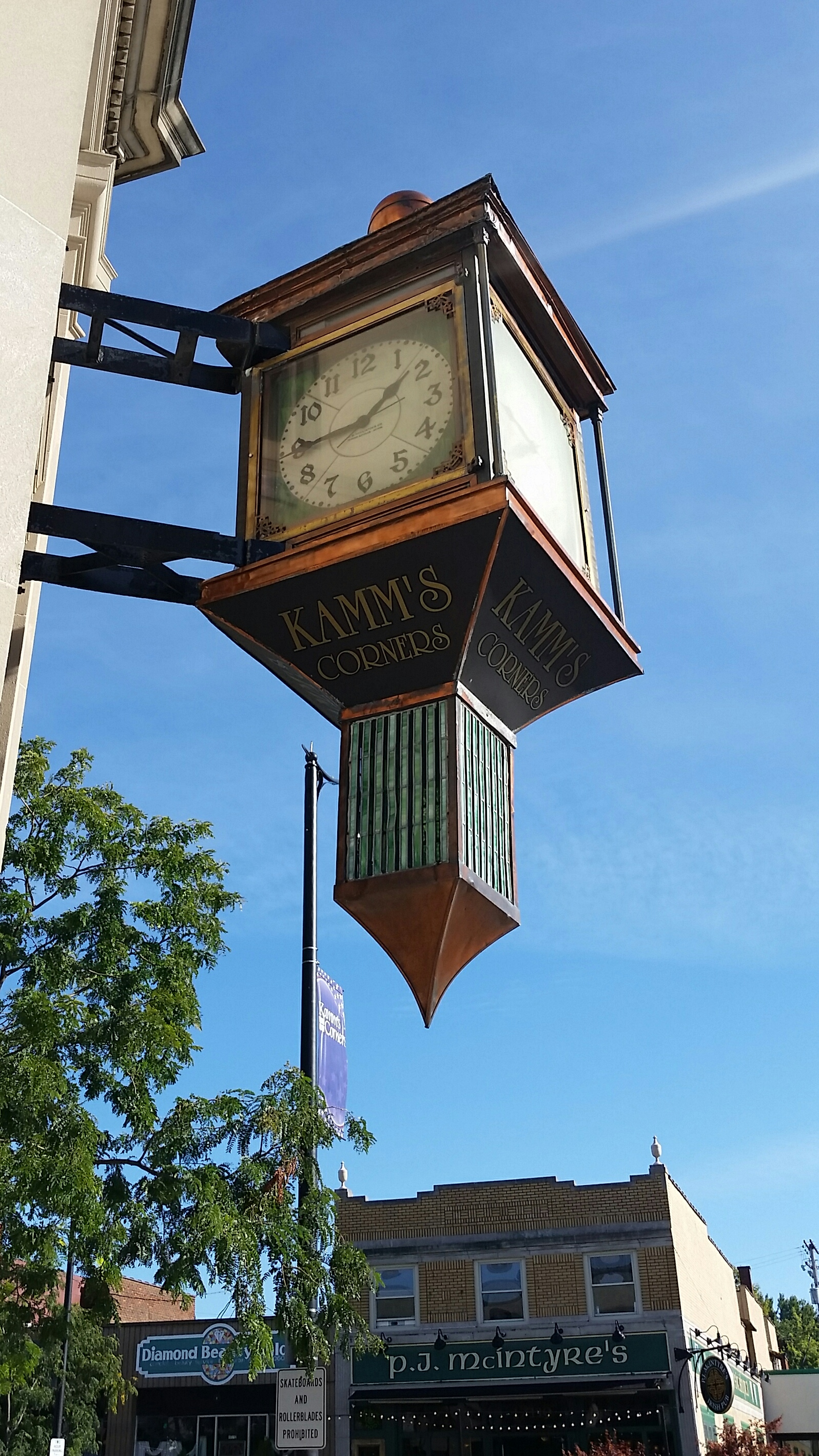 Kamm's Corners clock, located at the corner of Lorain Avenue and Rocky River Drive in Cleveland, Ohio, Sept. 25, 2016